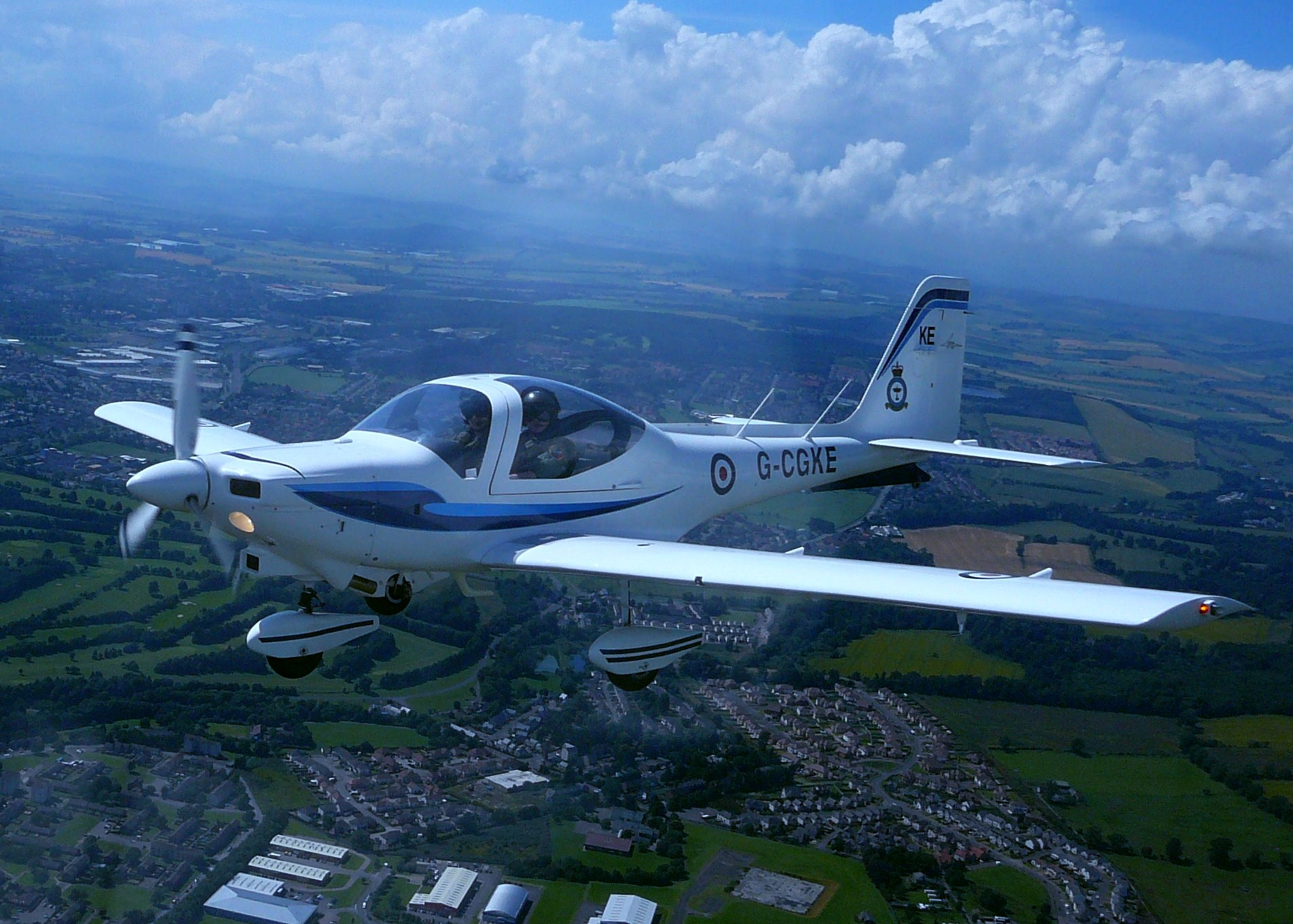 A Grob Tutor T2, belonging to the University of Birmingham Air Squadron, in flight over Scotland.